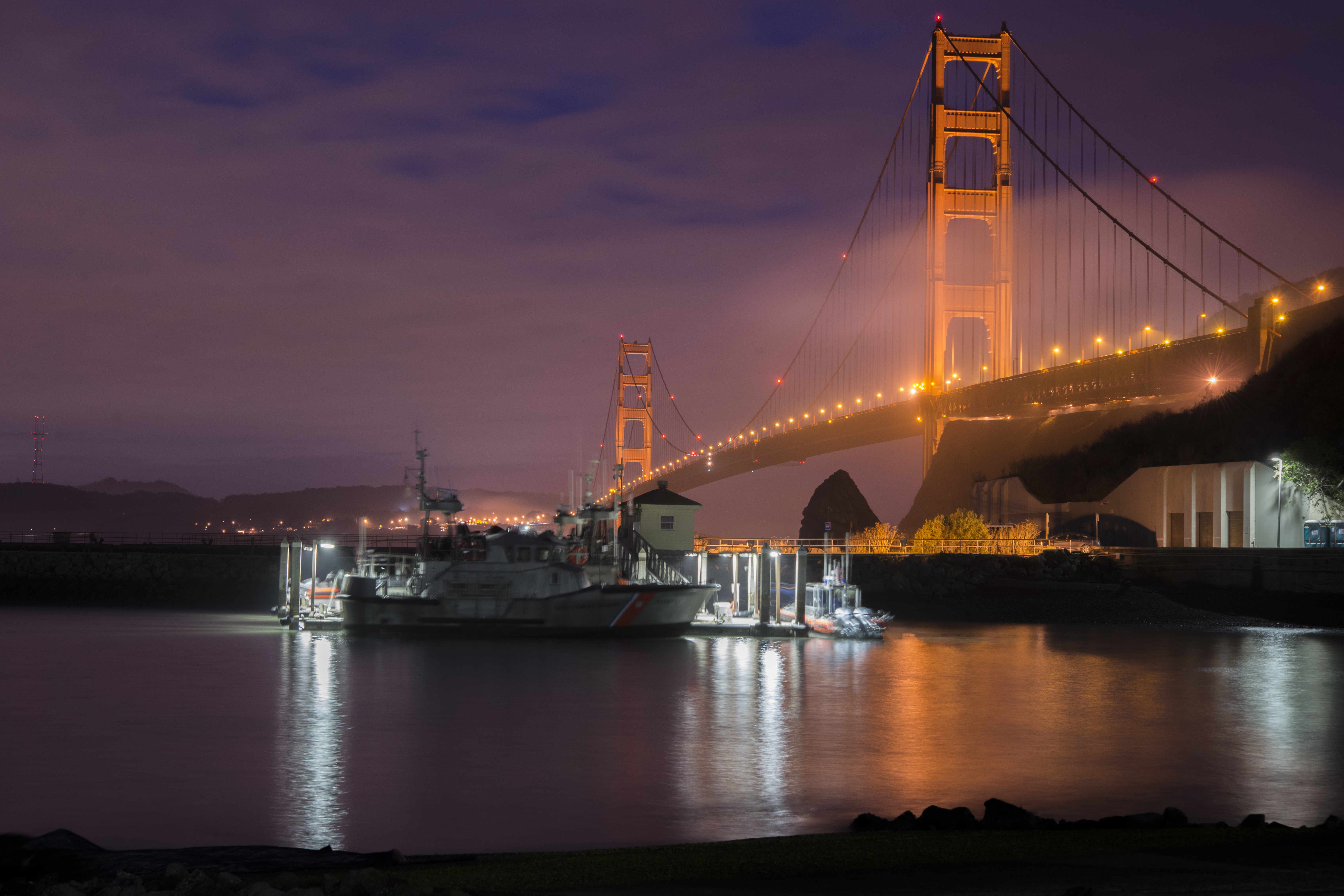 Is this the photo of the year? Go to the official Coast Guard Facebook page ( and “like” your favorite photos to place your vote and share your favorites with your friends! Don’t forget to check out the interactive bracket to see which photos are competing against each other: goo.gl/5kLUk8 A Coast Guard 47-foot Motor Lifeboat is moored up at Coast Guard Station Golden Gate in Sausalito, Calif., Dec. 7, 2015. Coast Guard Station Golden Gate is located in East Fort Baker under the north side of the Golden Gate Bridge and is one of the Coast Guard's nineteen designated surf stations. (Coast Guard photo by Petty Officer 3rd Class Loumania Stewart)